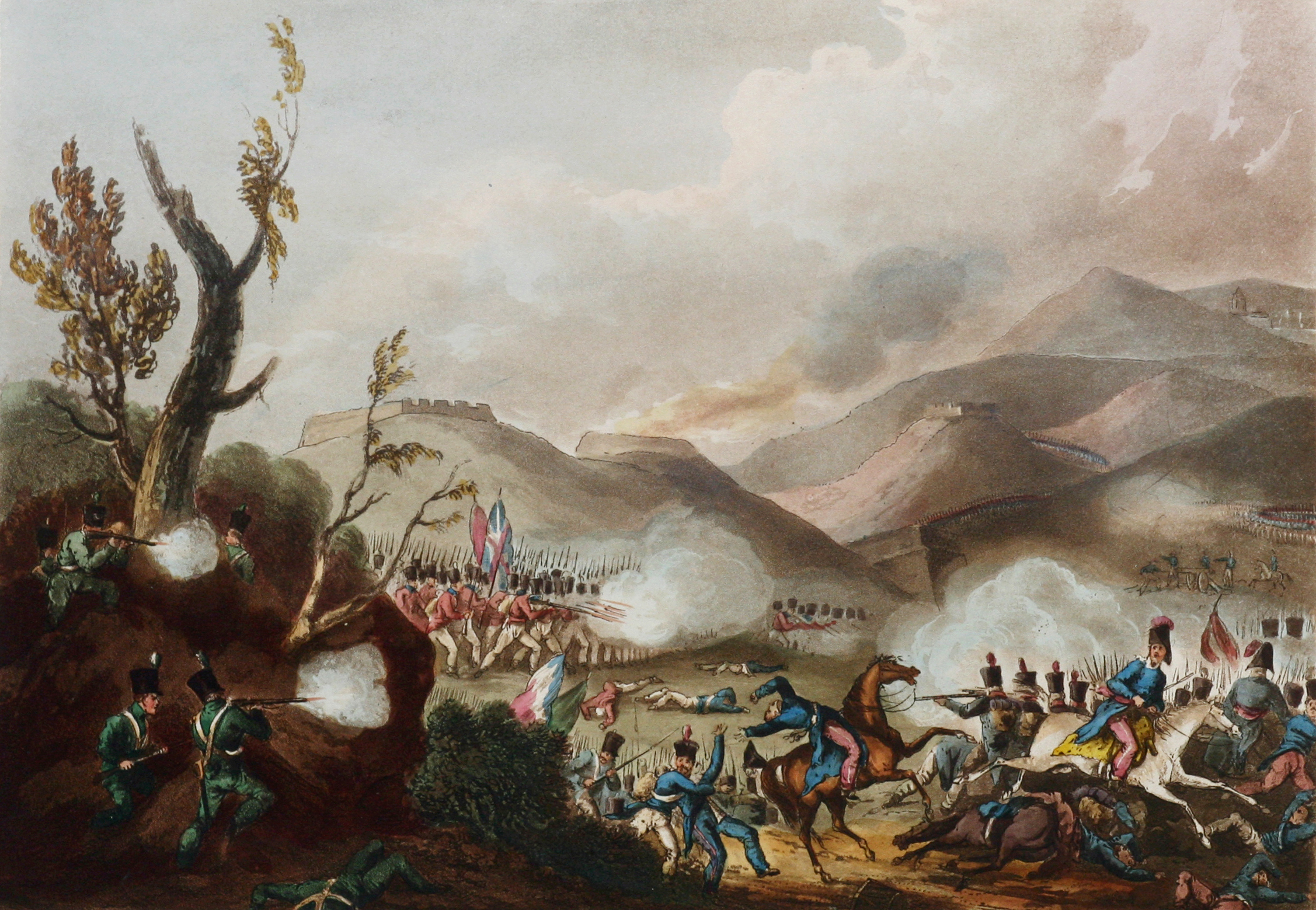 Engraving representing the Battle of Buçaco - September 27, 1810 - published in London on June 1, 1815, by J. Jenkins, 48 Strand. There is in the Military Historical Archives, Lisbon, Portugal, and is identified with the code EN-AHM-FE-10-A7-MD-12.A